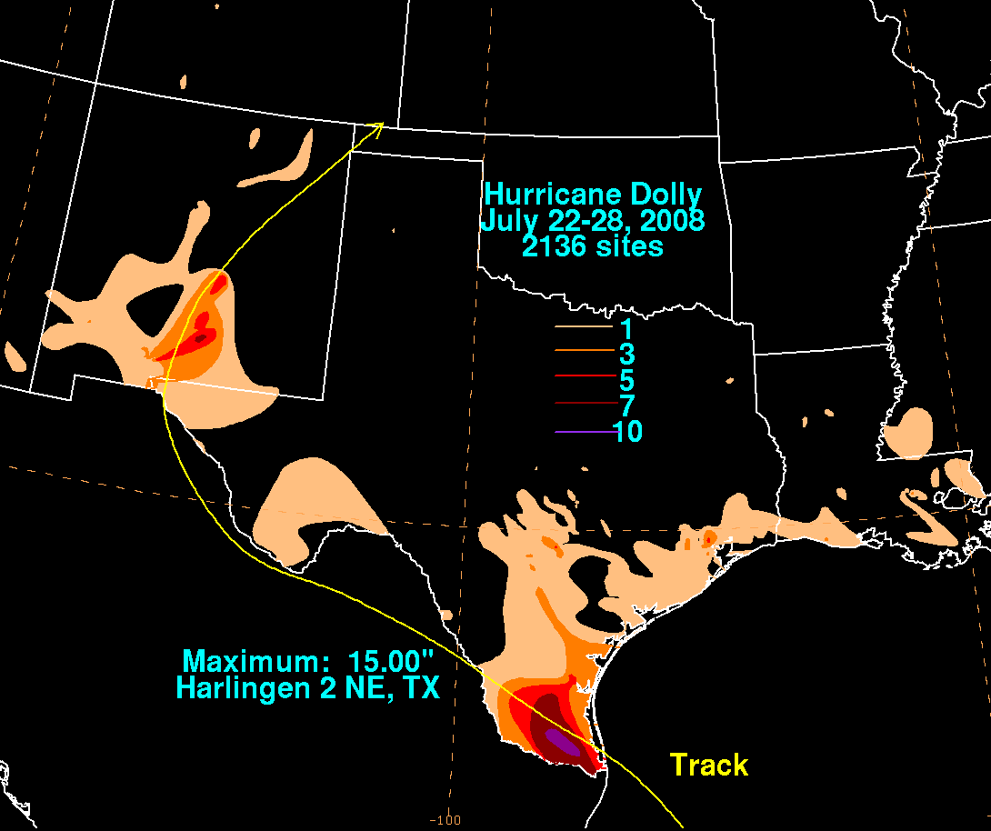 Storm total rainfall map of Hurricane Dolly during July 2008.